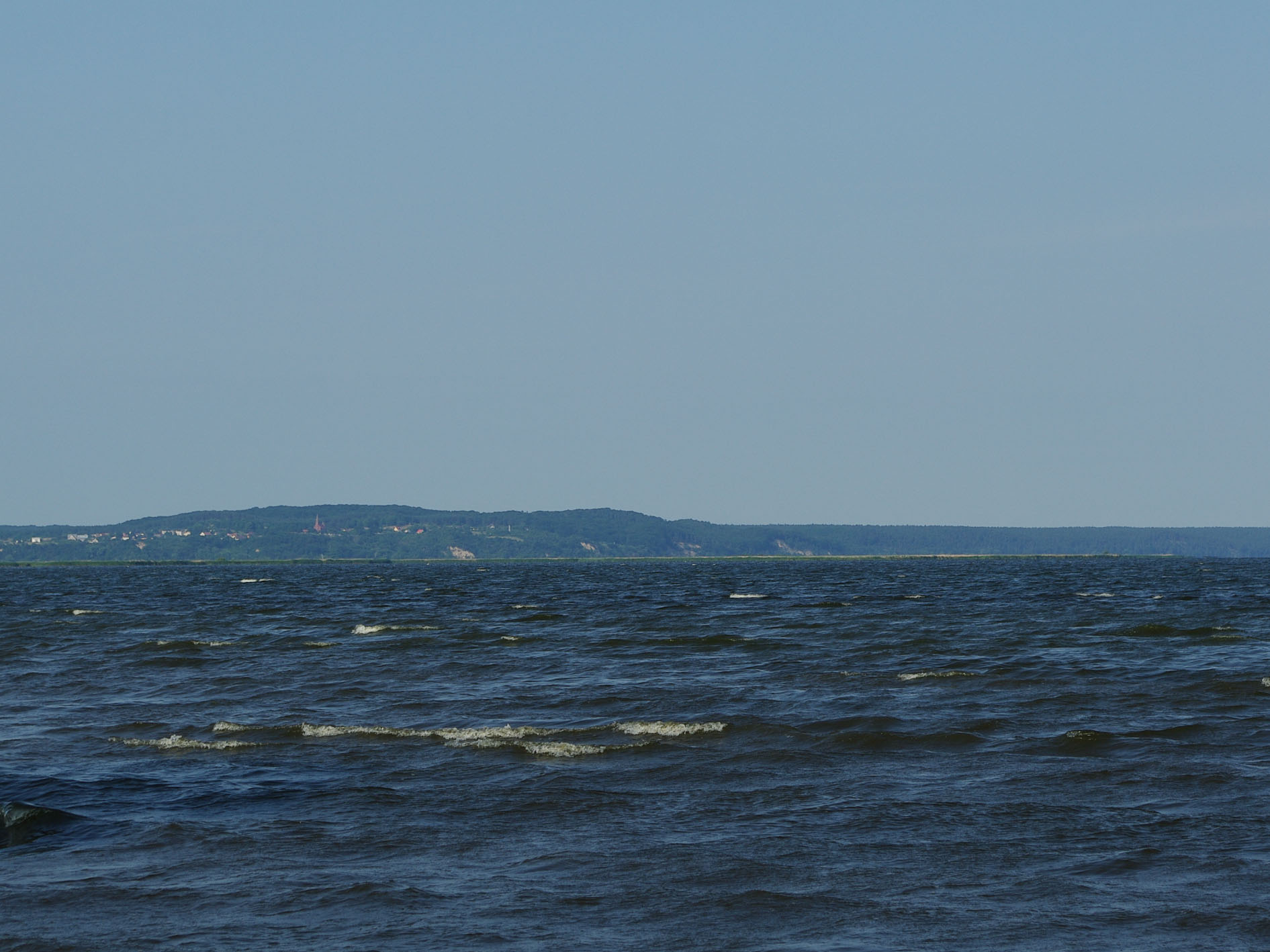 Lubin-Wapnica Hills seen from Karsibór Island